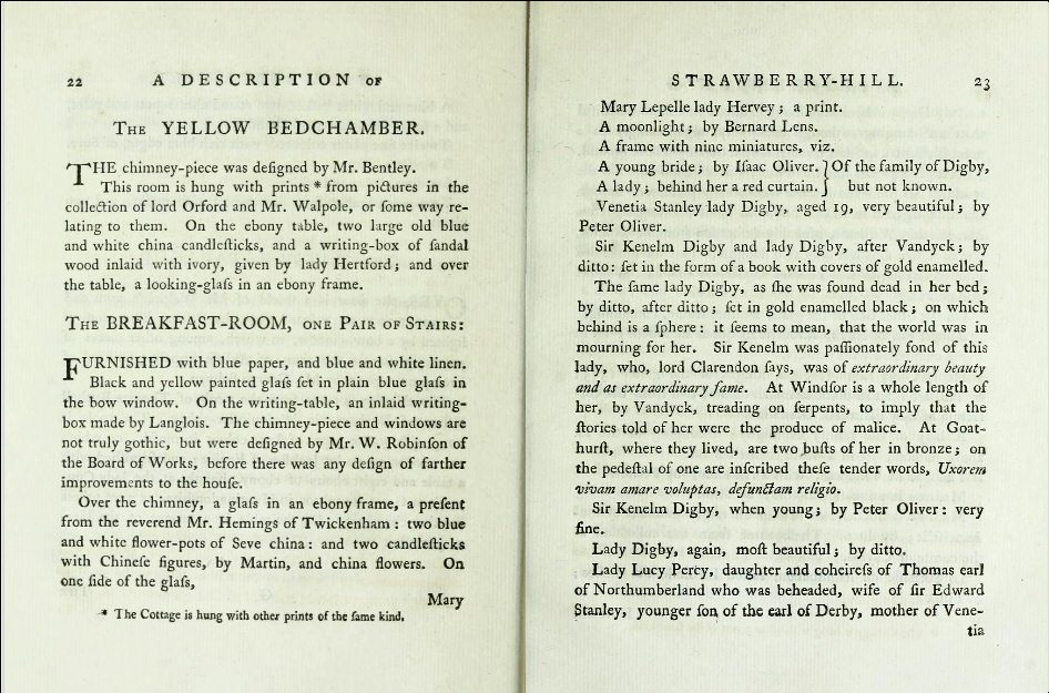 2-page spread from A Description of Strawberry-Hill by Horace Walpole, 1774. The book is a catalogue of the art treasures that he collected to fill his gothic mansion in Twickenham, London.